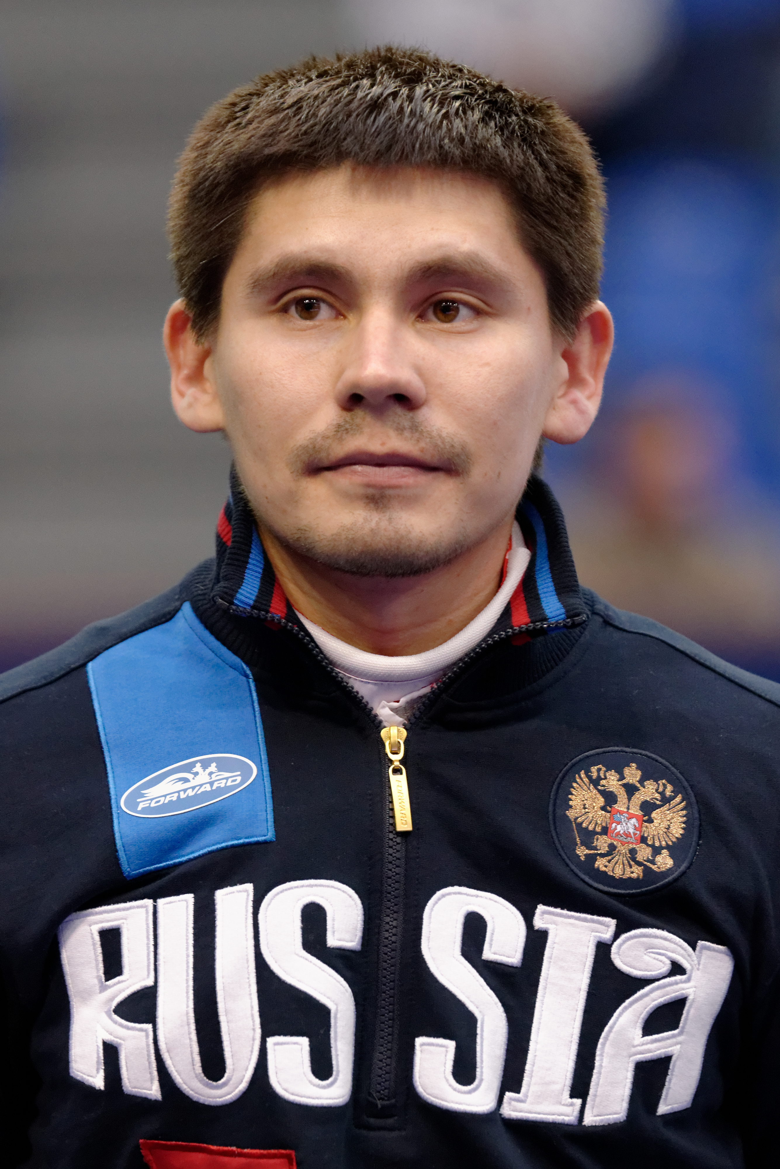 Russia's Renal Ganeev at the individual event of the 2015 Challenge International de Paris, a men's foil World Cup competition.